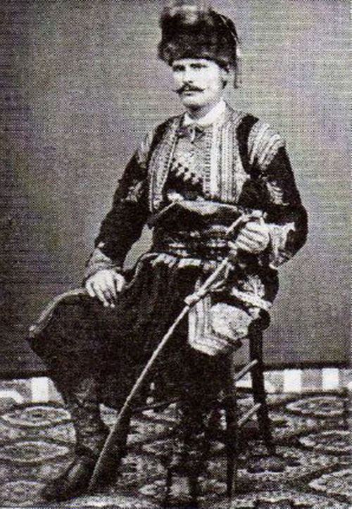 Don Ivan Musić,priest from Klobuk,Ljubuški